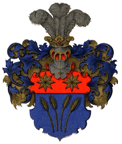 Coat of arms of von Arnold family